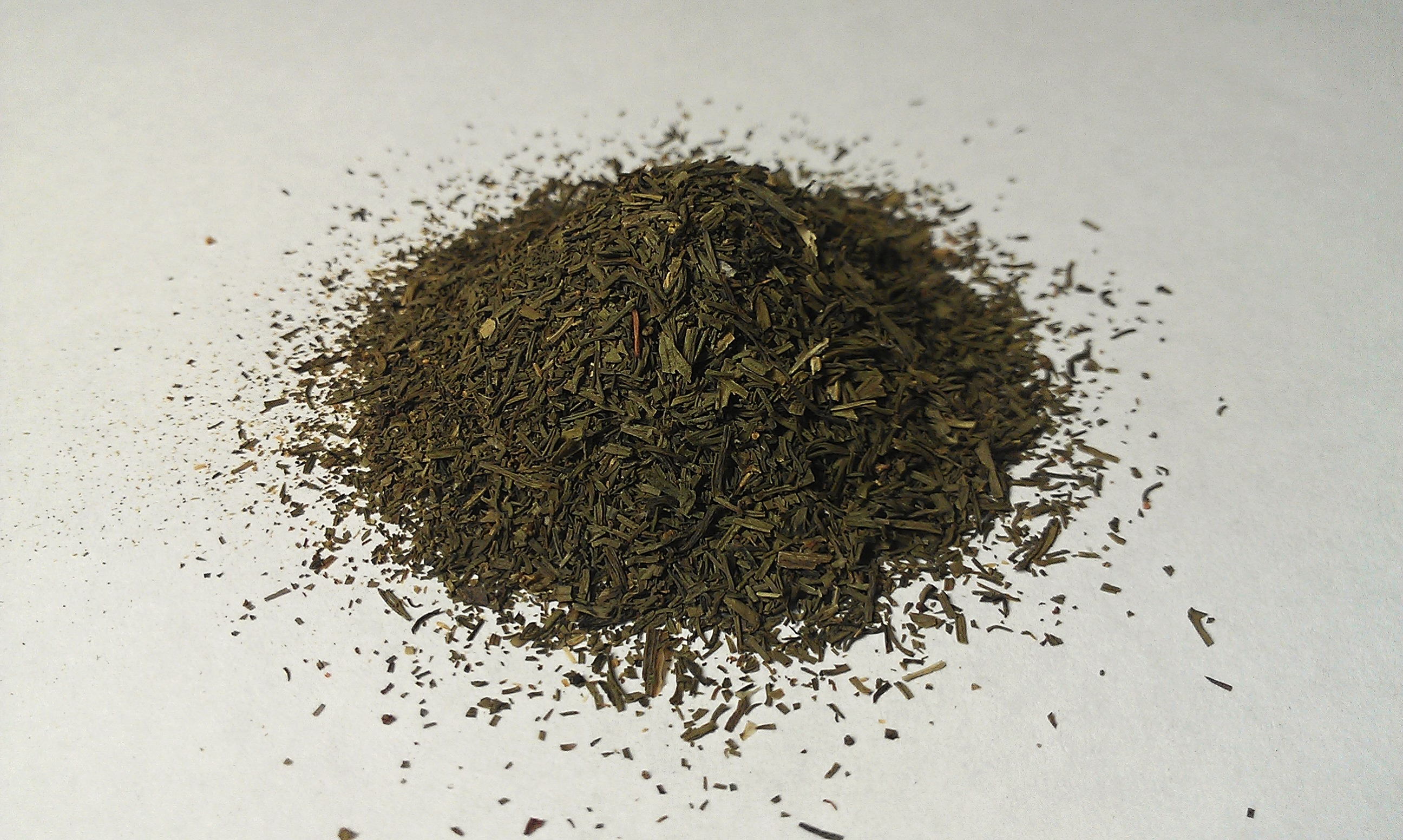 Spice of dill (Anethum graveolens)